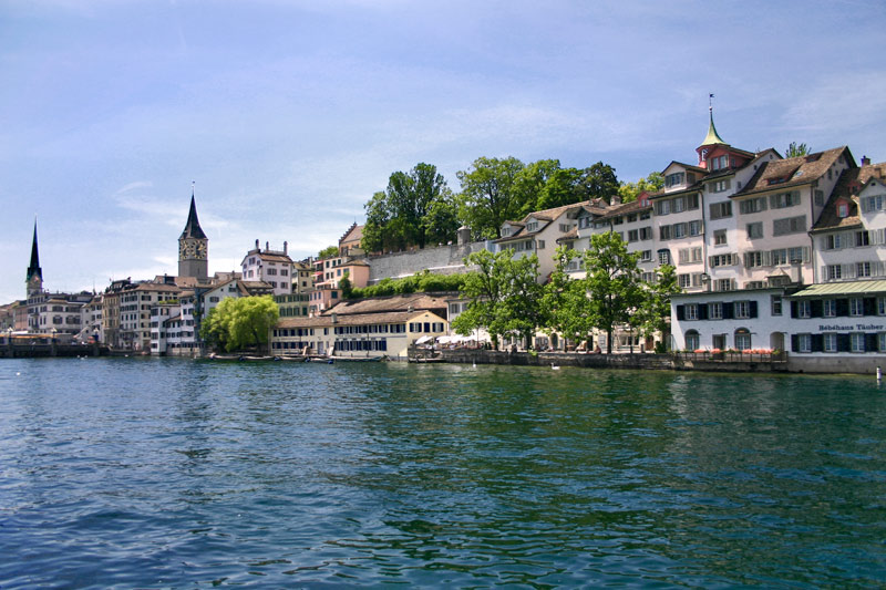 Zurich City: Destrict Lindenhof with the Lindenhof (Park), Schipfe and Limmat river.